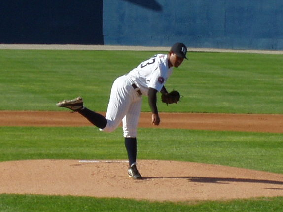 Anderson Garcia delivers a pitch for the Battle Creek Yankees in May of 2003.